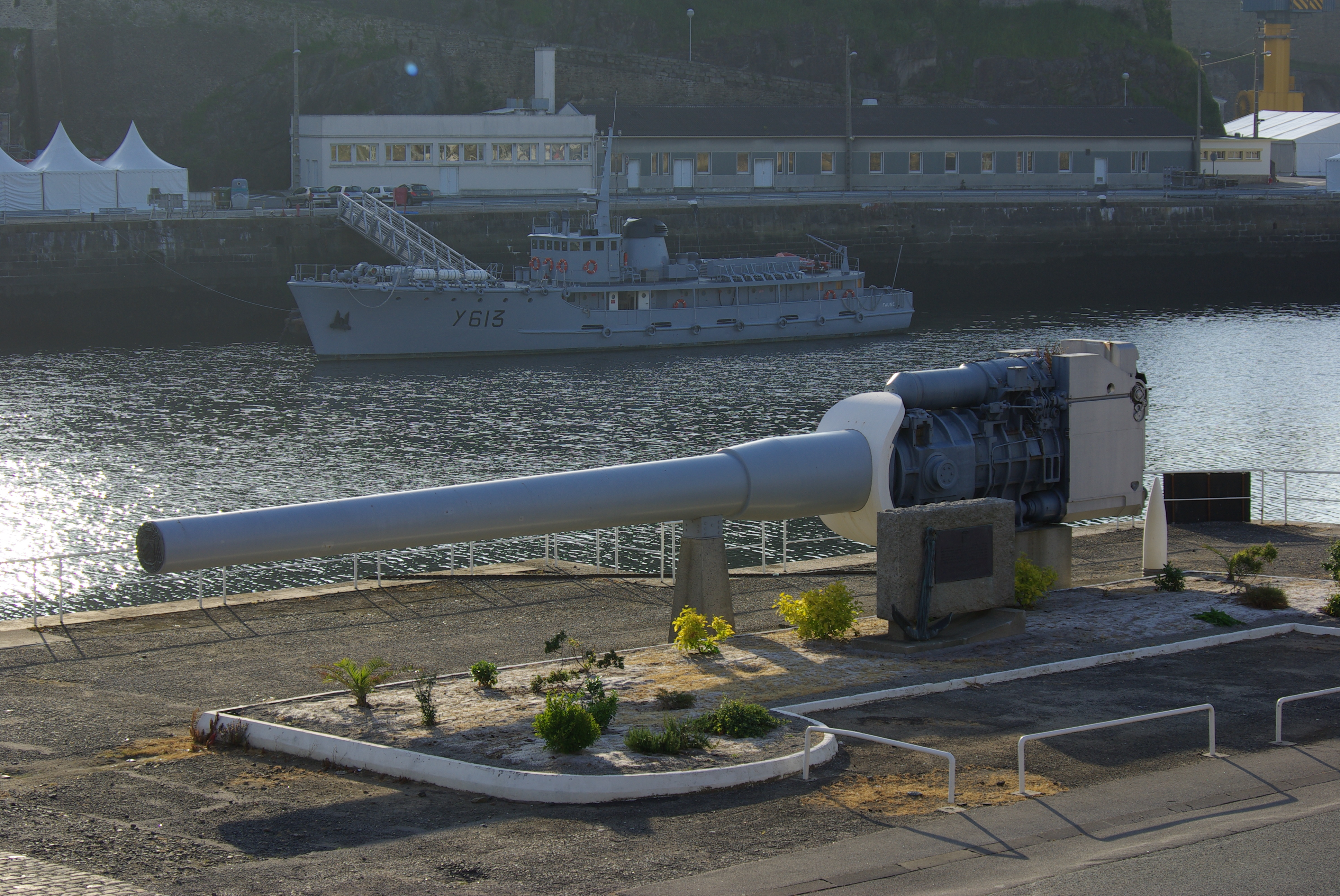 A cannon of the French battleship Richelieu used as a monument to the memory of the sailors of Brest's harbour dead for France. In the background, a harbour transport ship type Ariel : Faune (Y613).